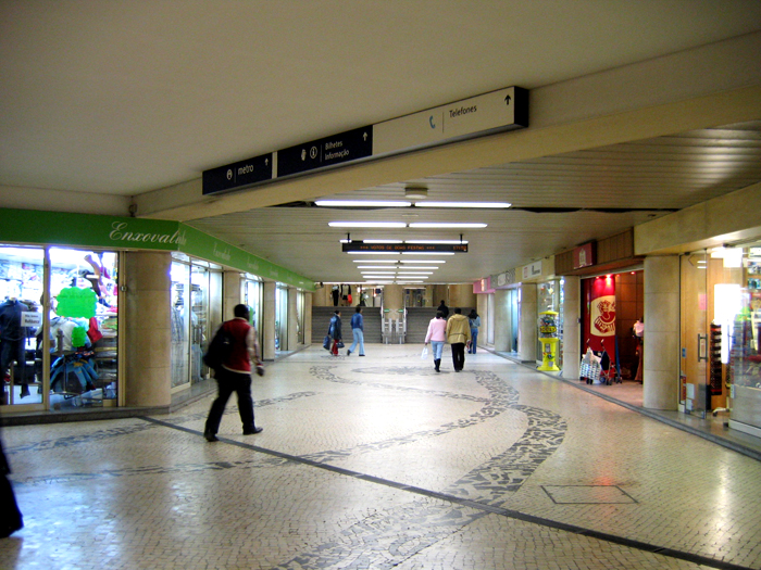 passageway at Lisbon's underground station Jardim Zoológico, Lisbon, Portugal